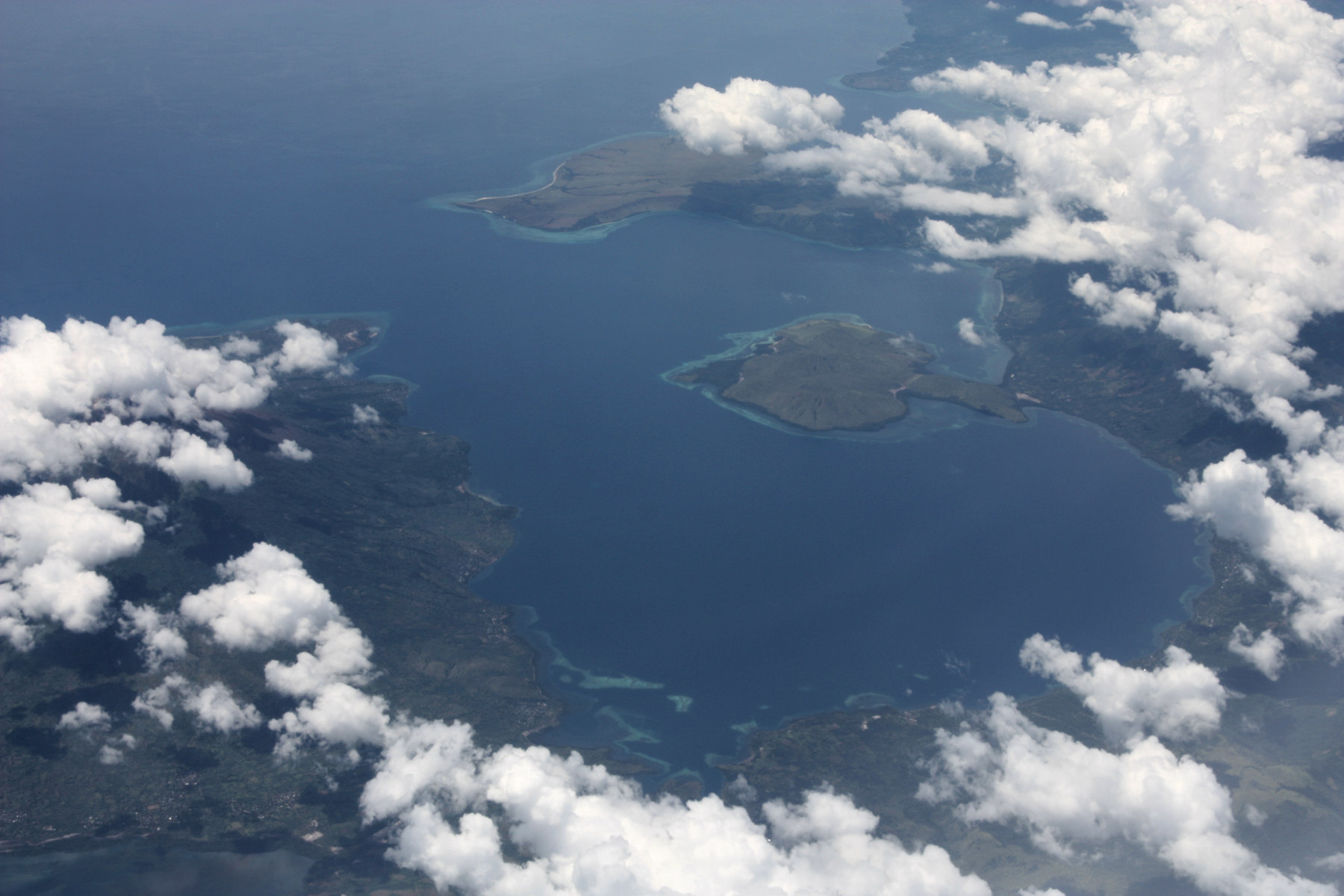 Teluk Waienga - protected bay of Lembata island, Solor Archipelago, Indonesia. Aerial view.